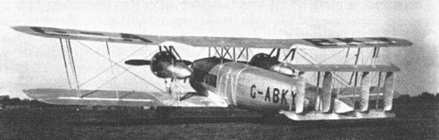 Vickers Vellox cargo aircraft